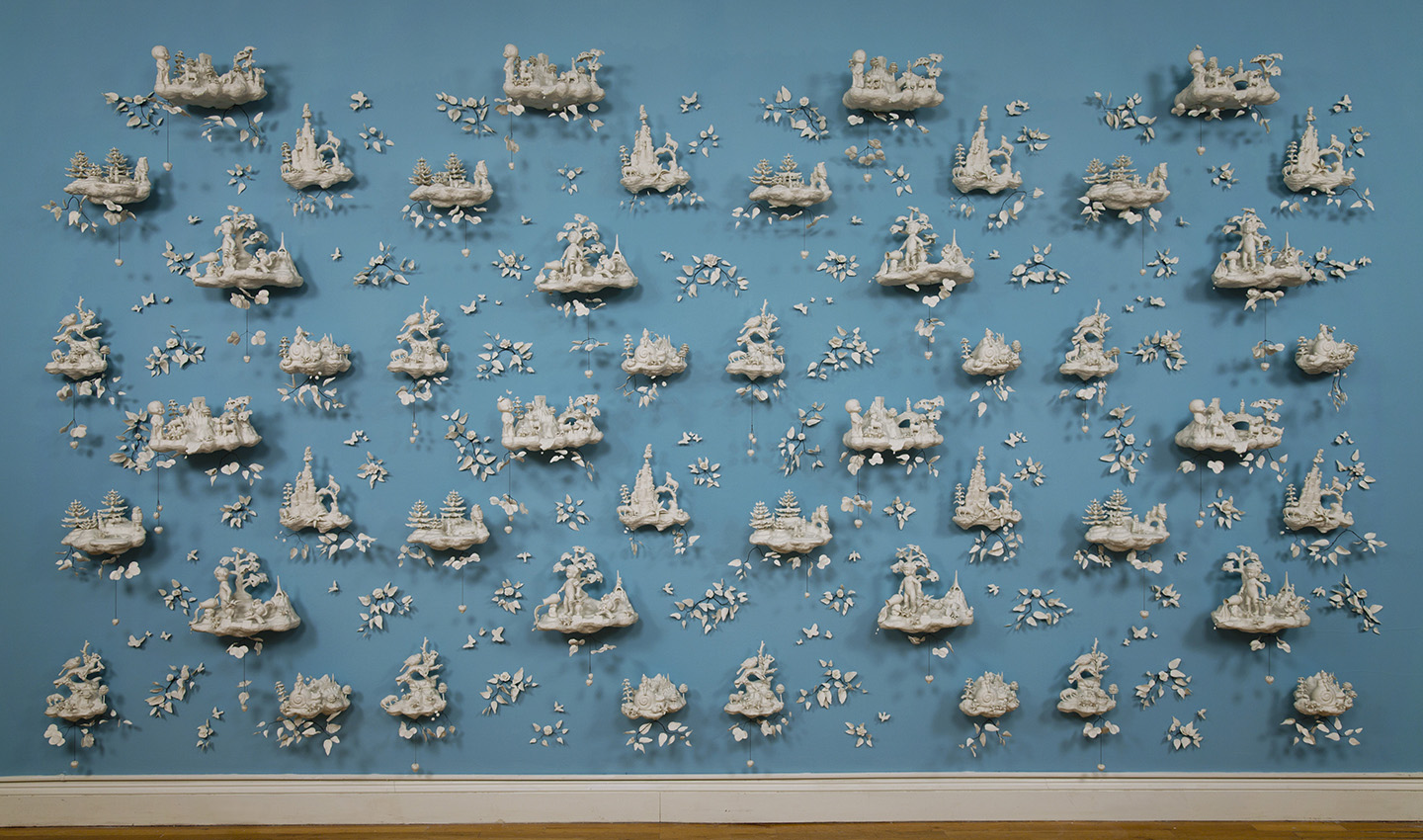 At first glance, Folly evokes a world of luxury and genteel pleasure, but a closer look reveals a more subversive agenda. Inspired by traditional Toile de Jouy textiles, the 48 sculptural tableaus are comprised of flea market trinkets and icons from popular culture, cast in porcelain. The surreal narratives touch on themes of lost innocence or domestic disturbances. Porcelain suggests both the opulence of European high craft and the exuberance of kitsch souvenirs. This duality infuses the narratives, poised between consumption and desire. Folly, 2010 Porcelain, wire, steel rods and heat-shrink tubing 208 x 112 x 11 inches